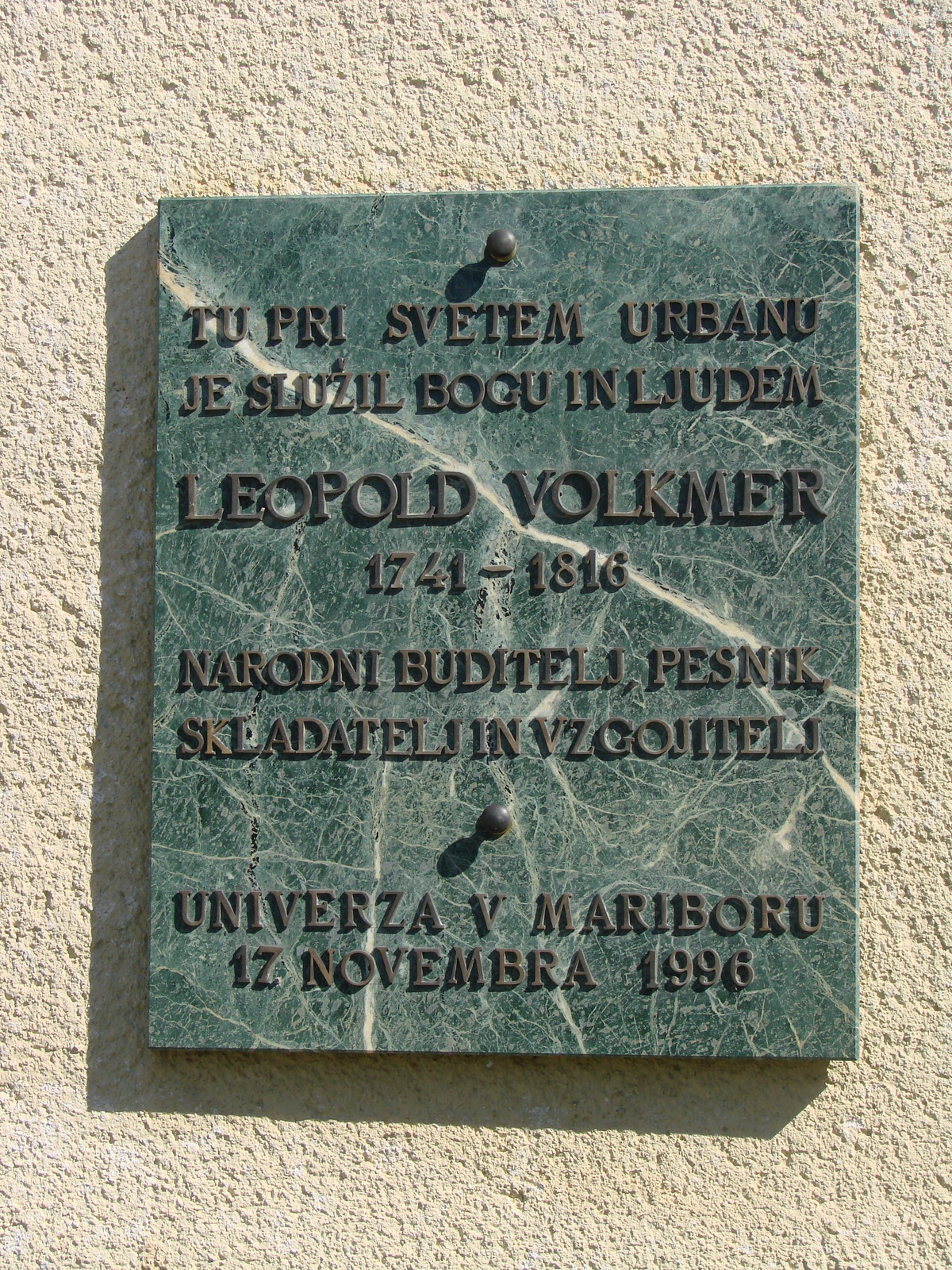 Leopold Volkmer plaque (Destrnik)